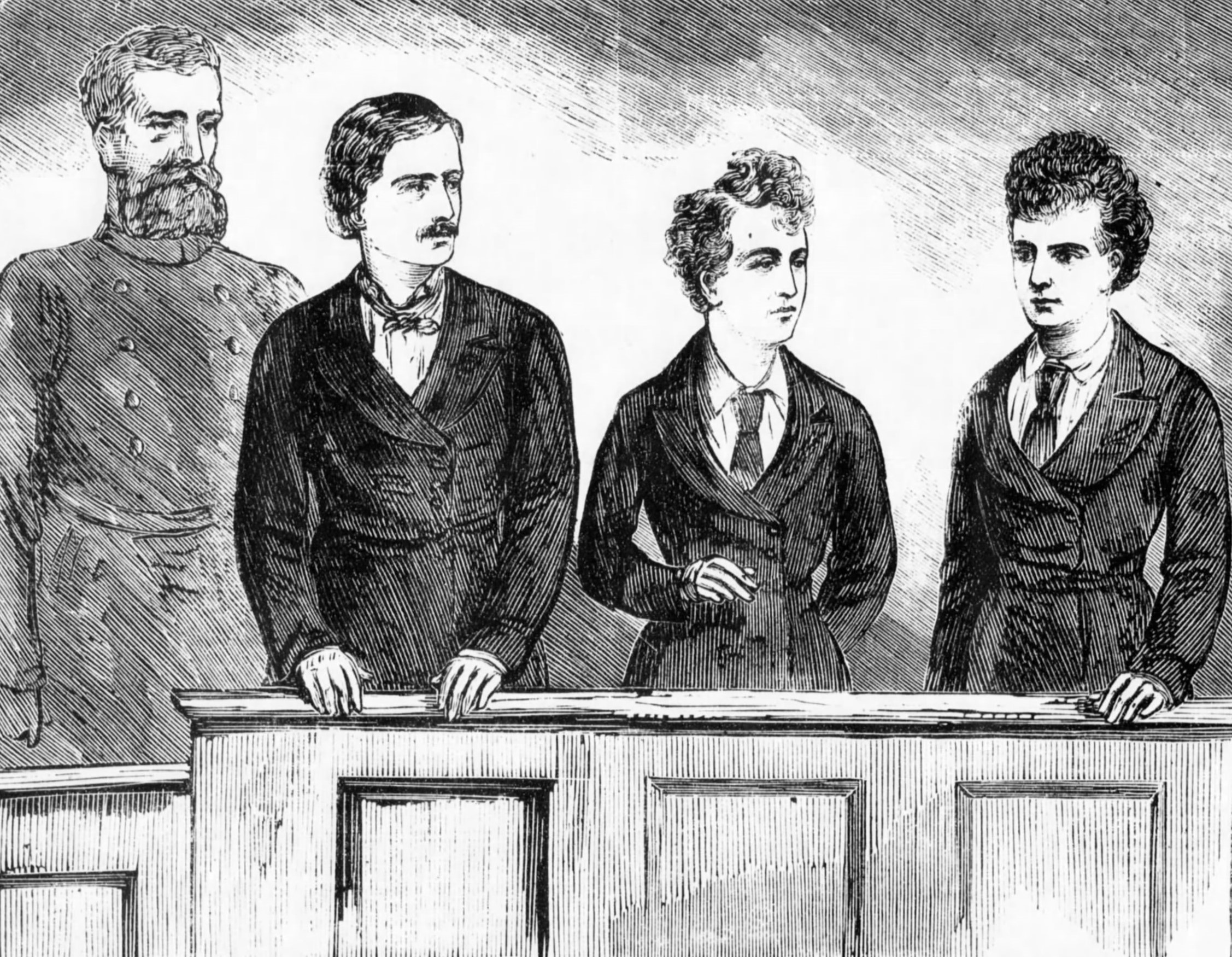 The Illustrated Police News - Young Men Charged with Appearing in Women's Clothes